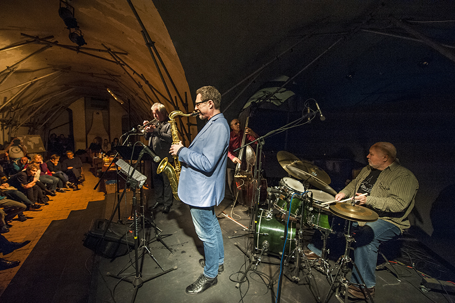 Memorial jazz performance devoted to the music of Charles Mingus by Piotr Rodowicz - bass, Maciej Sikala - sax, Robert Majewski - trumpet, Kazimiery Jonkisy - drums